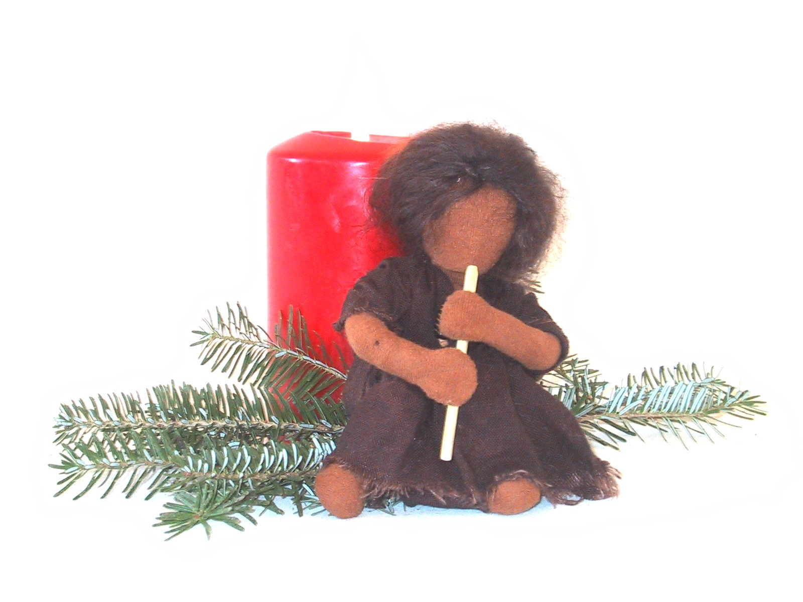 Biblical Narrative Figure - Herdsmaid.